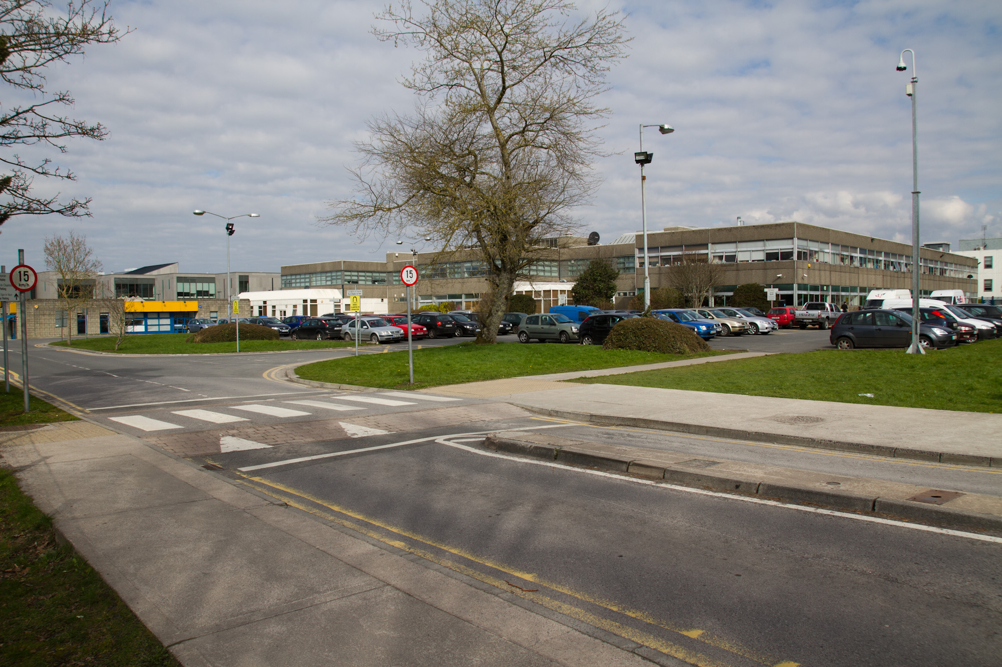 The old entrance to IT Sligo.